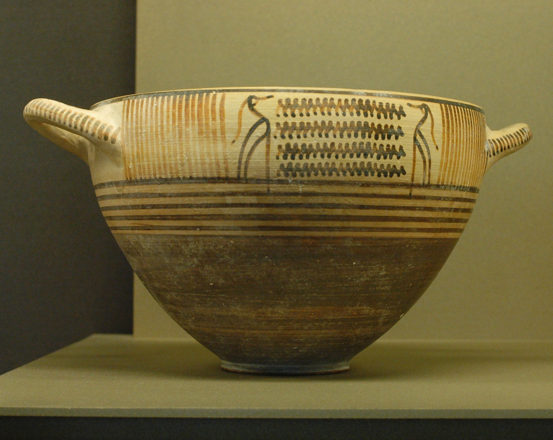 Corinthian skyphos with birds.